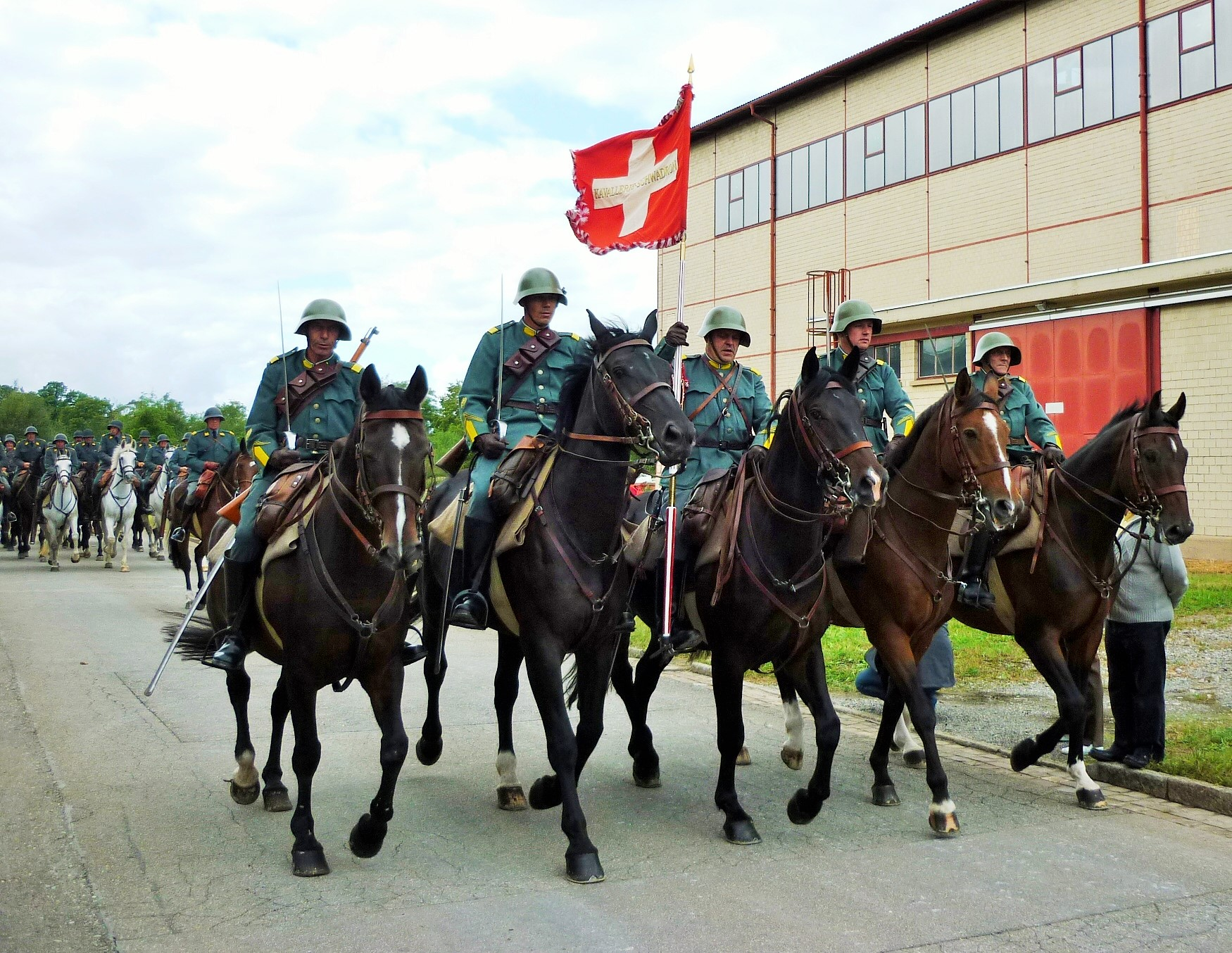 Swiss cavalry squadron 1972